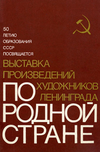 Cover of the exhibition catalog "Across the Motherland", 1972